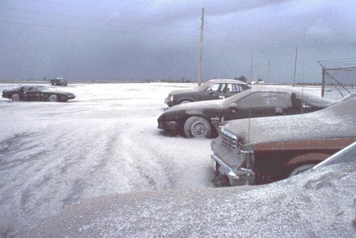 Ashfall from Mount Pinatubo's 1991 eruption. Snowlike blanket of tephra deposit of June 16, 1991, about 9 cm thick, in the eastern part of Clark Air Base, about 25 km east of Mount Pinatubo.